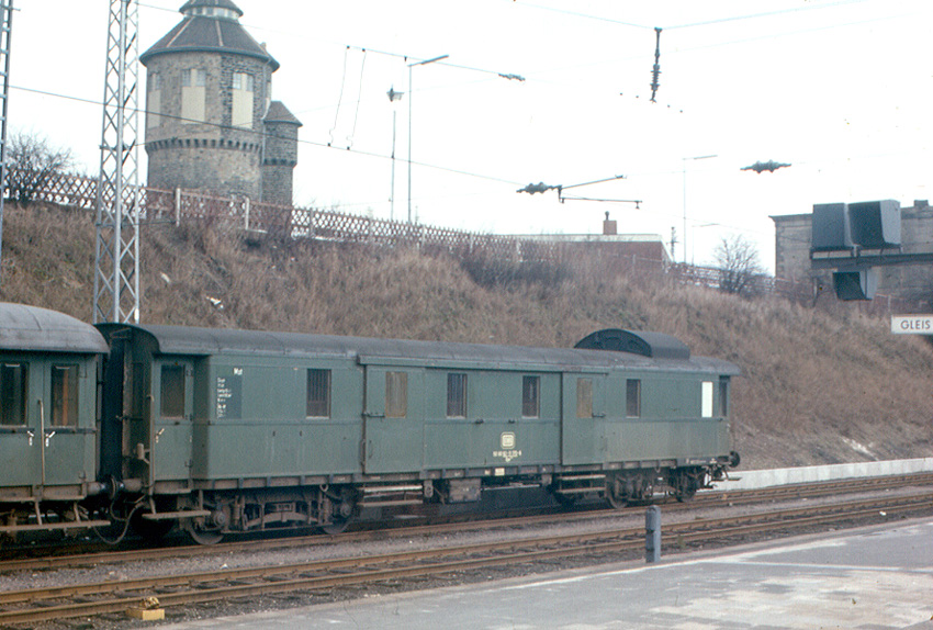 An old mail car, at Osnabrück station.